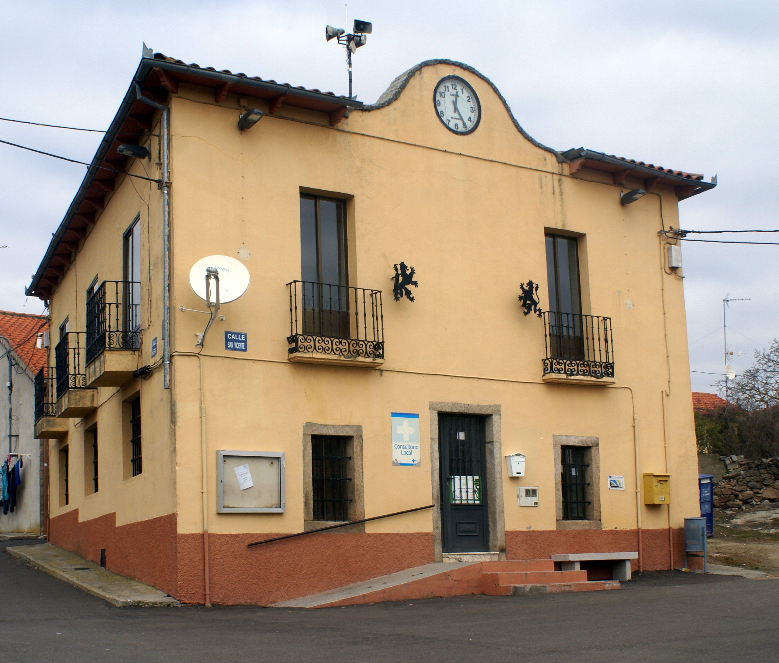 Town hall in Villaseco de los Gamitos, Salamanca, Spain.